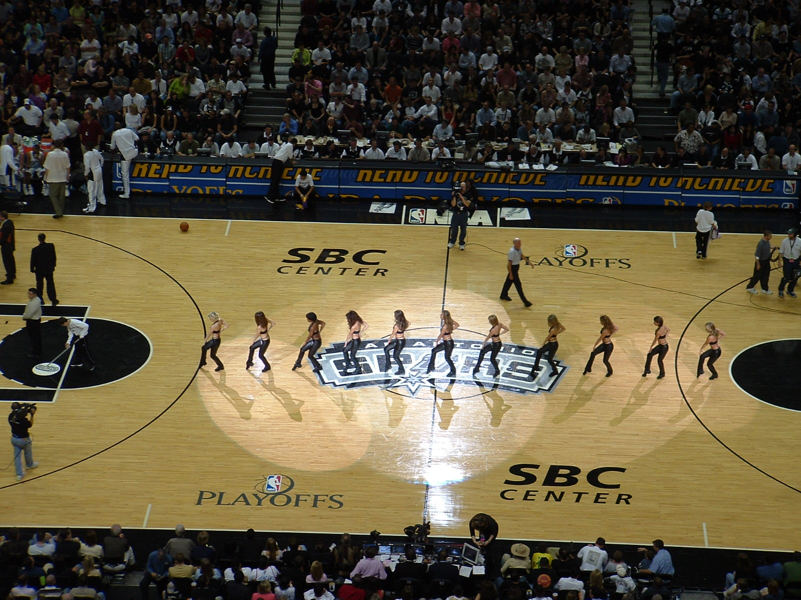 Playoff San Antonio, TX